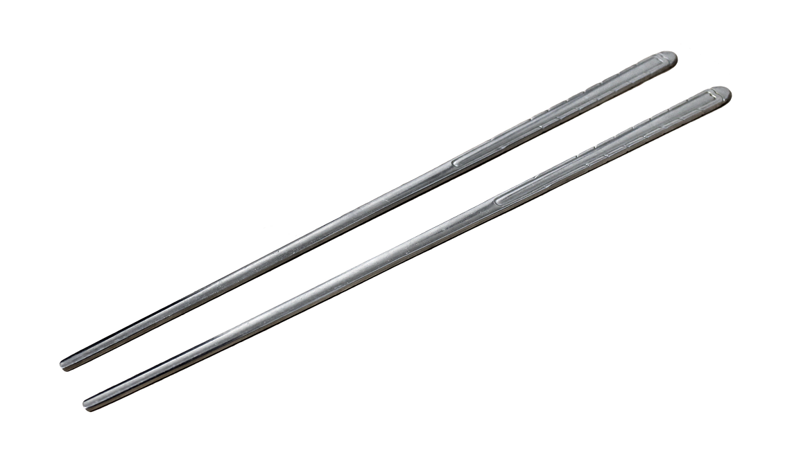 Korean Metal Chopsticks